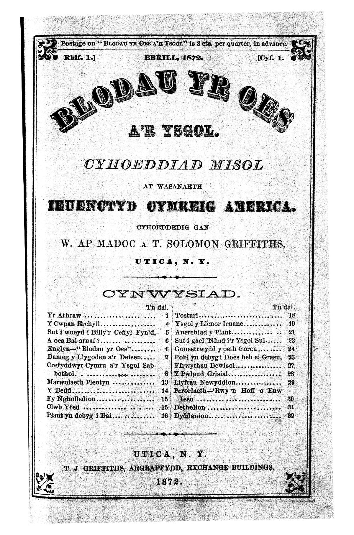 A monthly non-denominational Welsh-language periodical intended for the children of the Welsh Sunday schools in America. Until December 1874 the periodical was jointly edited by William ap Madoc and T. Solomon Griffiths who were succeded by the Calvinist Methodist minister, Morgan Albert Ellis (1832-1901) and the Congregationalist minister and eisteddfodwr Thomas Edwards (Cynonfardd, 1848-1927), who also served as joint-editors. Associated titles: Yr Ysgol (1869-1870).